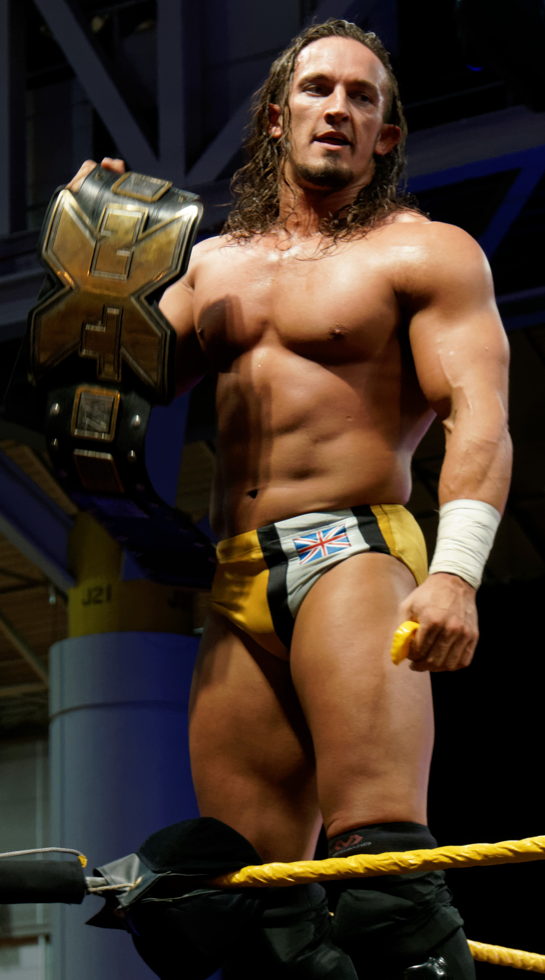 Adrian Neville holding the NXT Championship belt in the ring at WWE's WrestleMania Axxess on April 5, 2014.